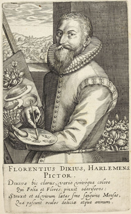 "Florentius Dikius Harlemens Pictor"; print of the artist Floris van Dyck by Hendrick Hondius for his Pictorum aliquot Germaniae Inferioris Effigies, Antwerp, Antwerp, 1610